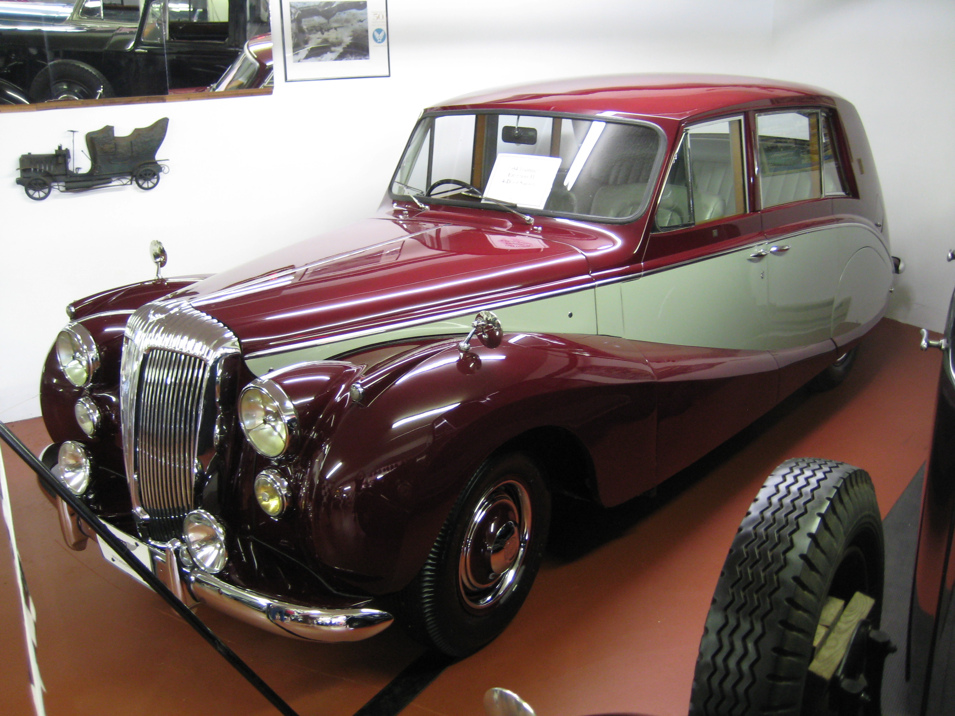 One of the garages at the LeMay house, filled with British machines.